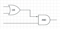 a and b are input to OR gate with output x. x and c are input to AND gate with output y.